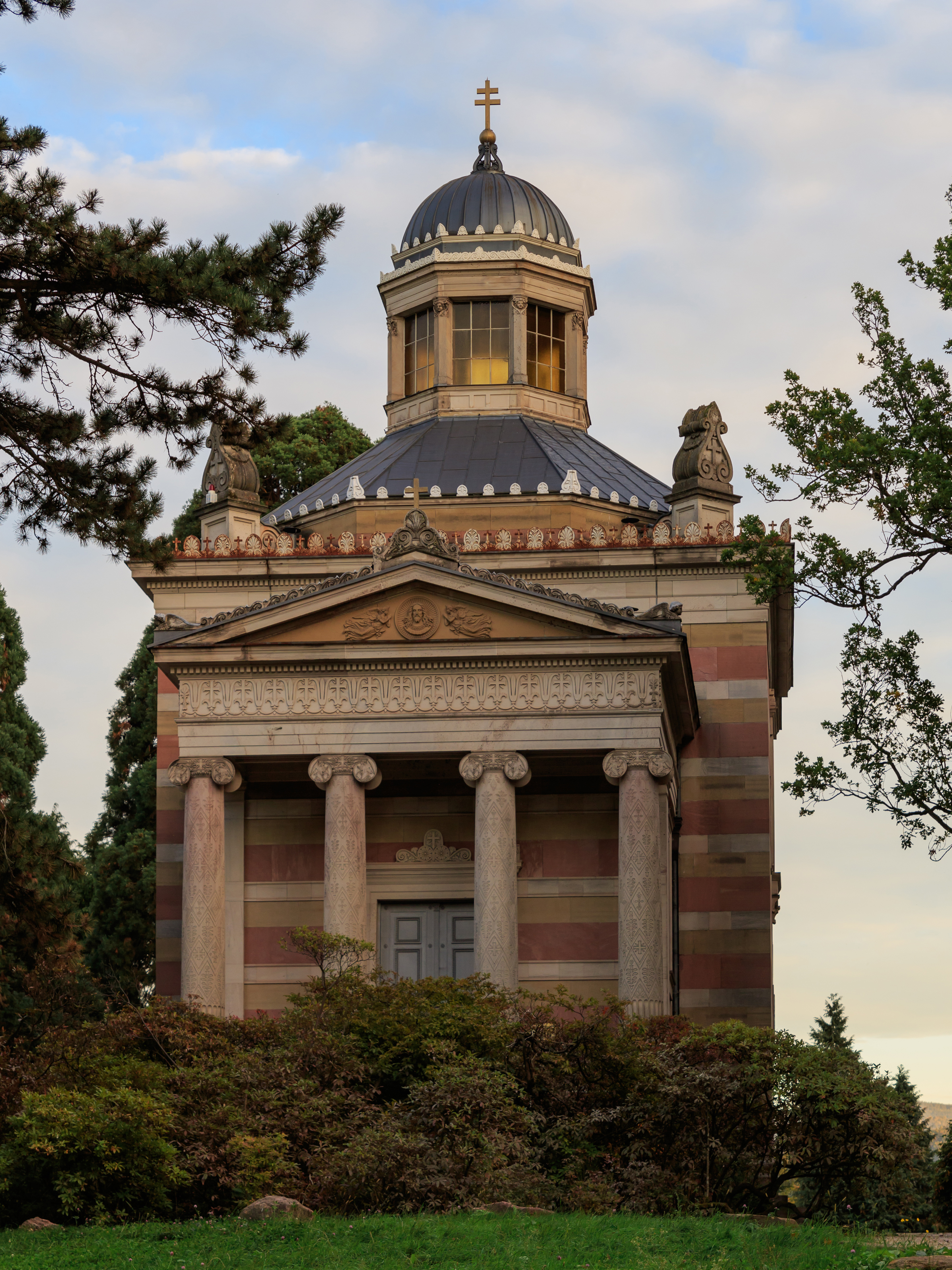 The Stourdza Chapel in Baden-Baden (BW, Germany).